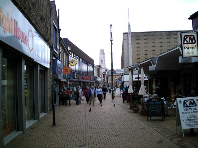 Market Street towards Town Hall